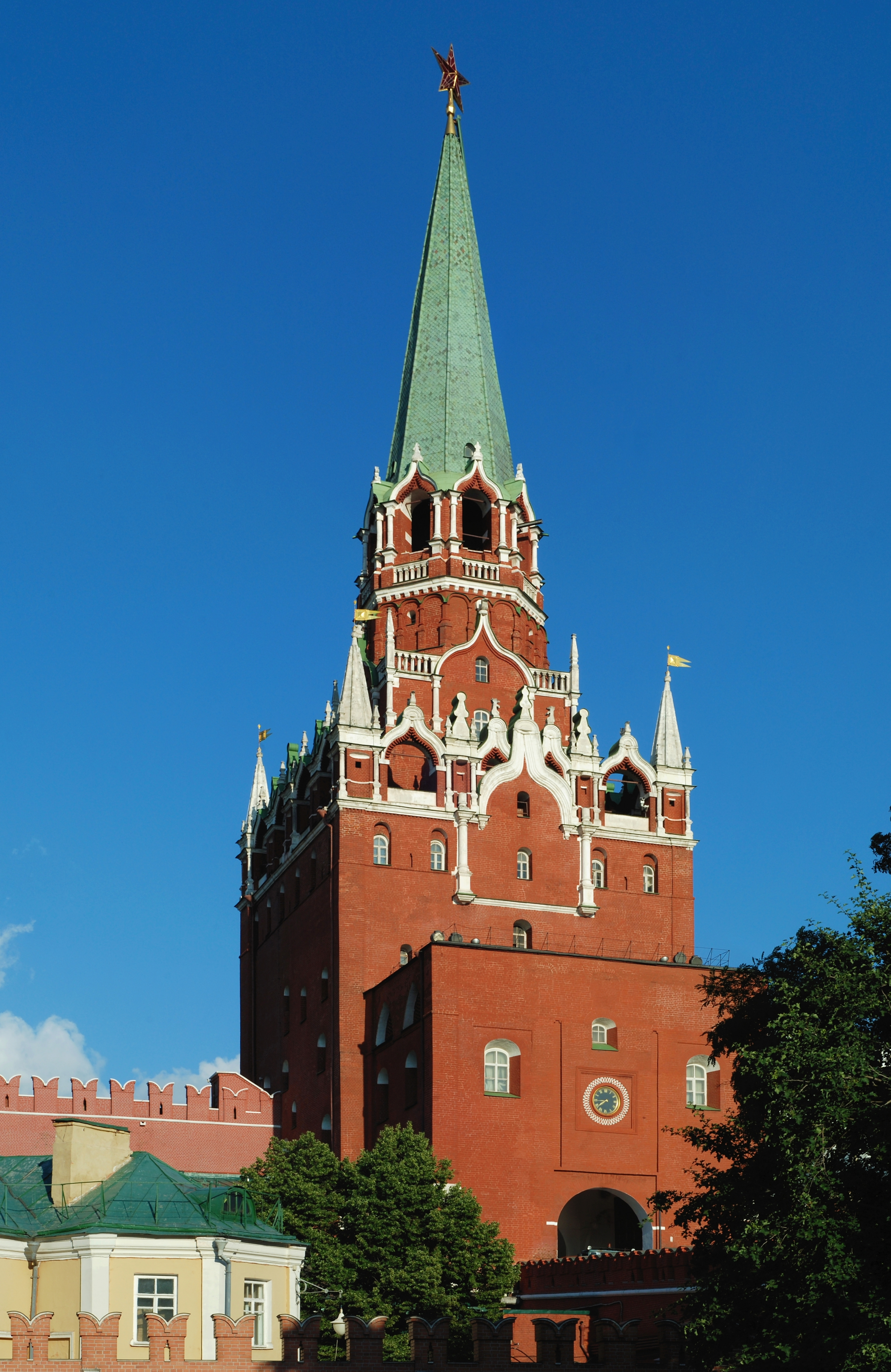 The Troitskaya (Trinity) Tower, Kremlin, Moscow. View from north